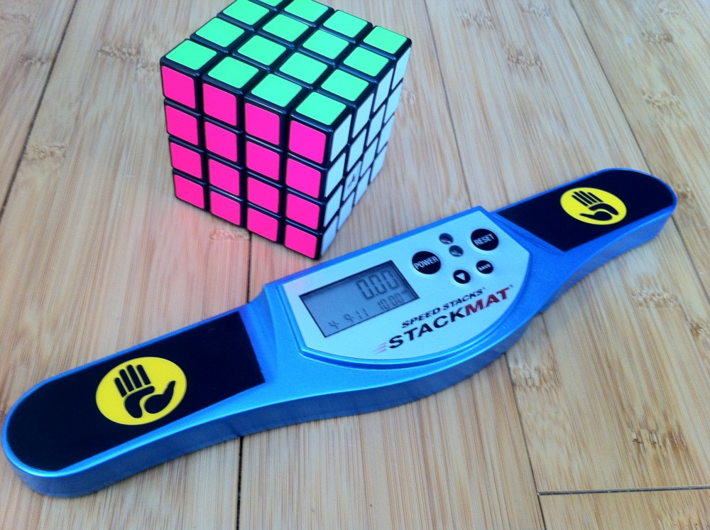 A stackmat timer with the memory function